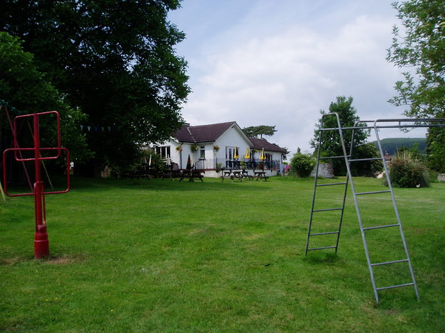 Royal Oak, Monmouth Garden and play area behind the Royal oak.